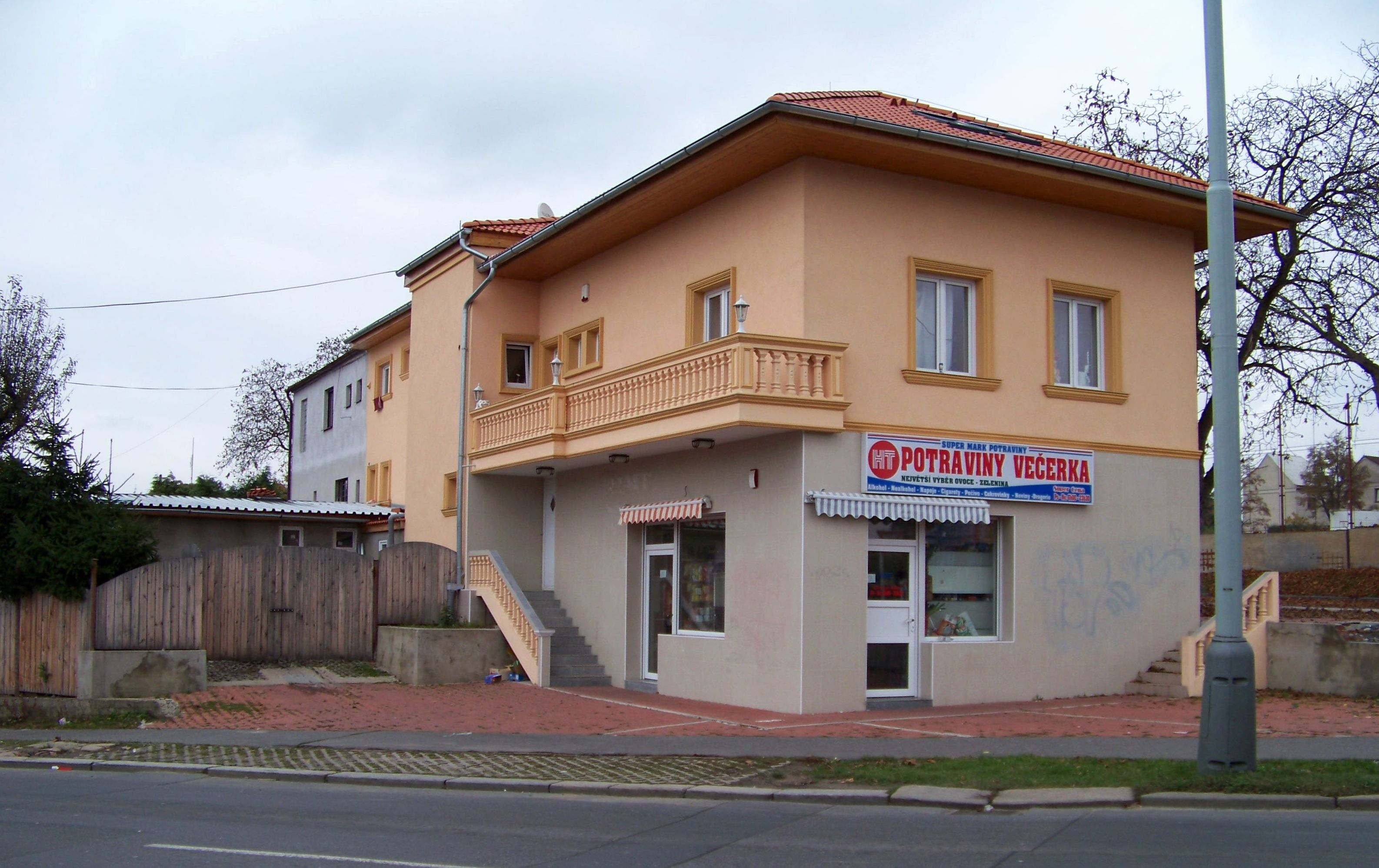 Chodov, Prague, the Czech Republic. Ke stáčírně Street, a shop near Dobrovolského Street. - Google Maps - Google Earth